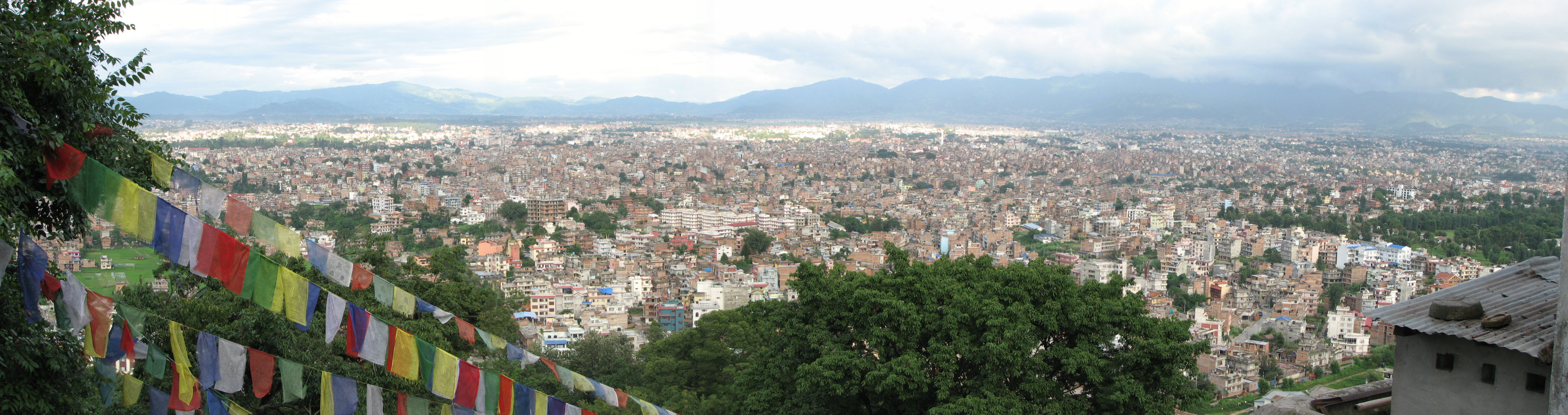 View of Kathmandu Valley from Swayambunath Stupa (Monkey Temple). Best viewed at large or original size.